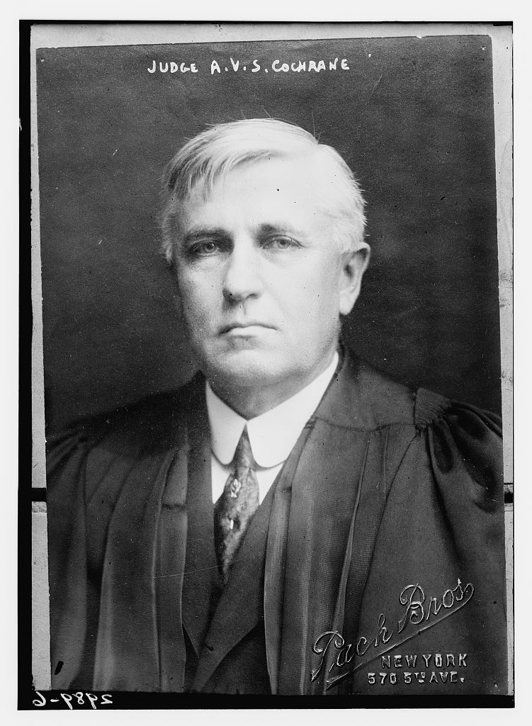 Bain News Service, publisher. Judge A. V. S. Cochrane [between ca. 1910 and ca. 1915] 1 negative : glass ; 5 x 7 in. or smaller. Notes: Title from unverified data provided by the Bain News Service on the negatives or caption cards. Forms part of: George Grantham Bain Collection (Library of Congress). Format: Glass negatives. Repository: Library of Congress, Prints and Photographs Division, Washington, D.C. 20540 USA, General information about the Bain Collection is available at Persistent URL: Call Number: LC-B2- 2989-6